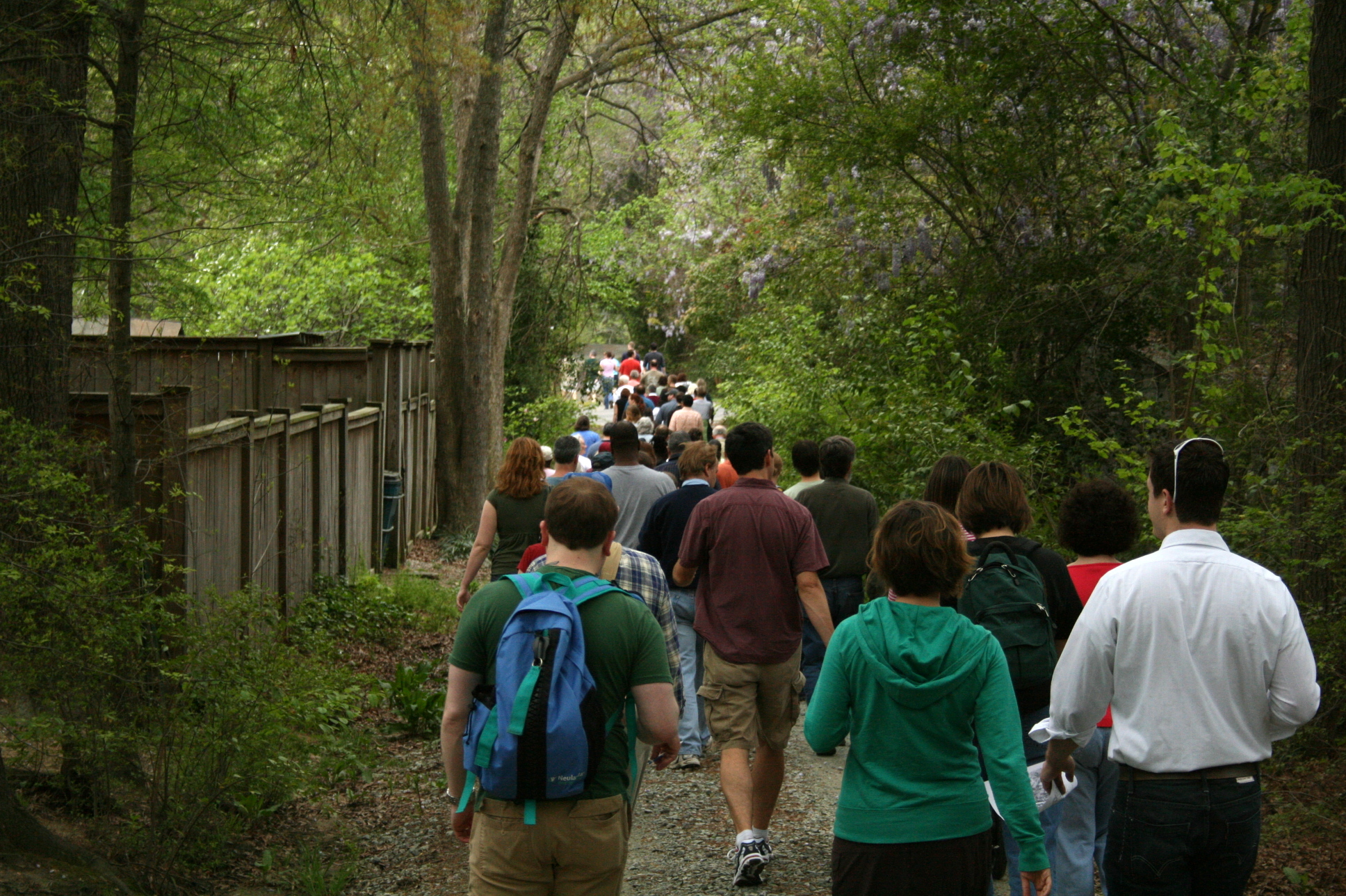 A group, guided by John Schelp, touring historic landmarks in Durham, North Carolina. They are walking down the hidden half-street between 9th Street and Iredell Steet.